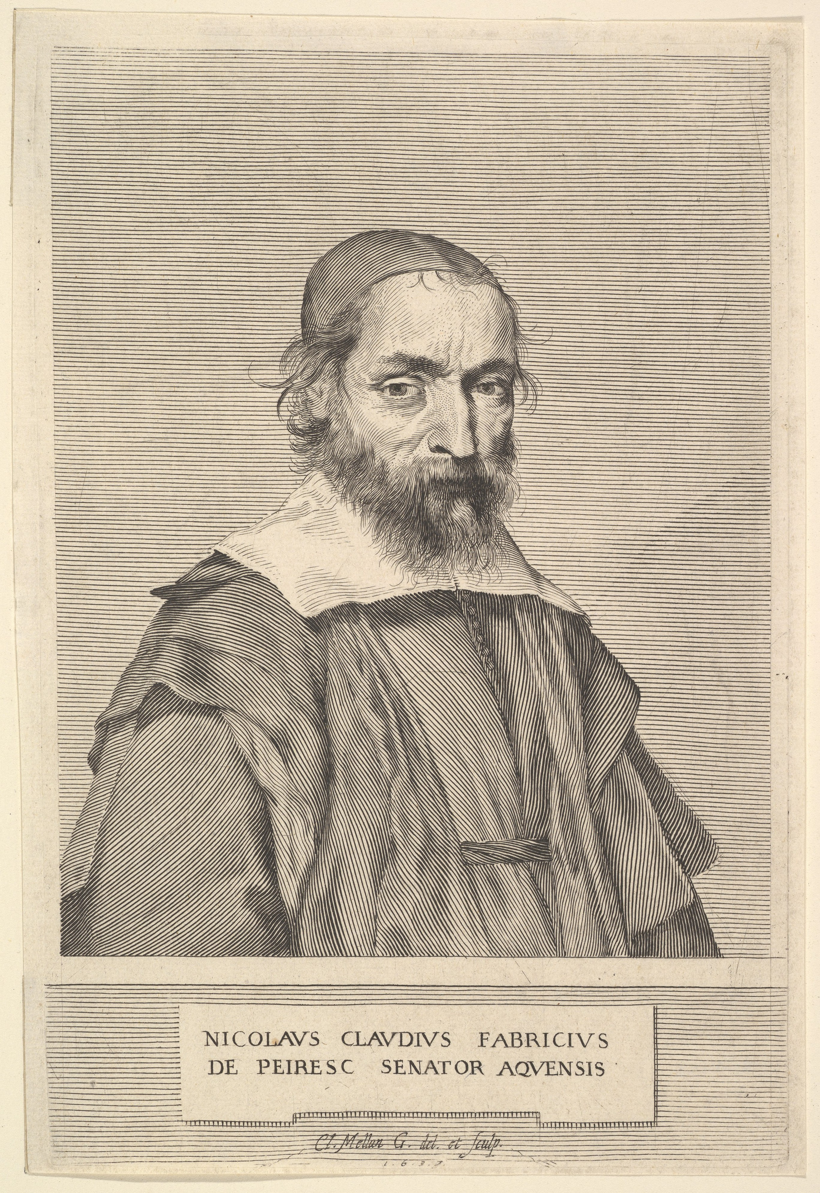 Print; Prints